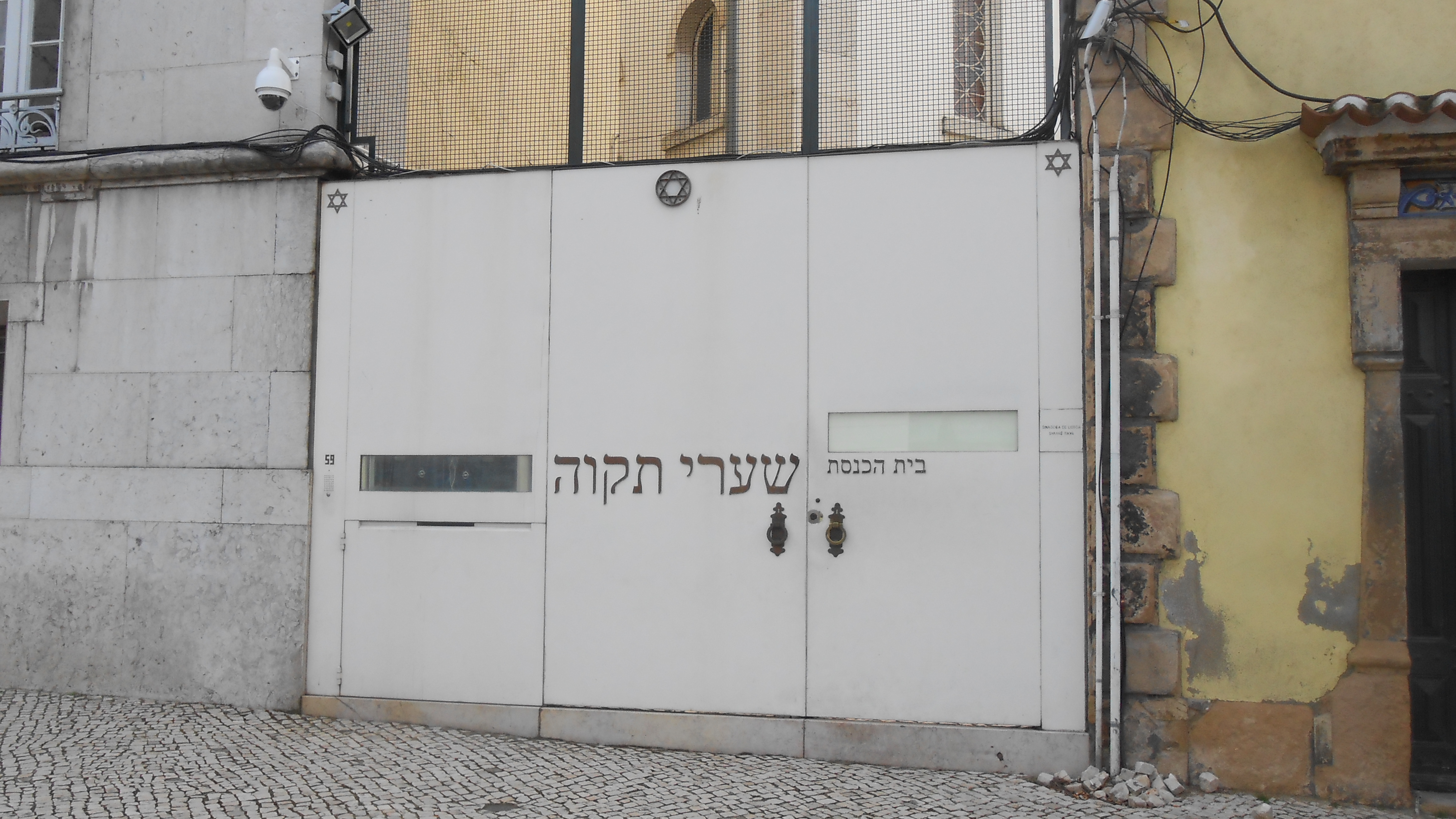 Entrance to the Shaaré Tikva synagoge in Lisbon.